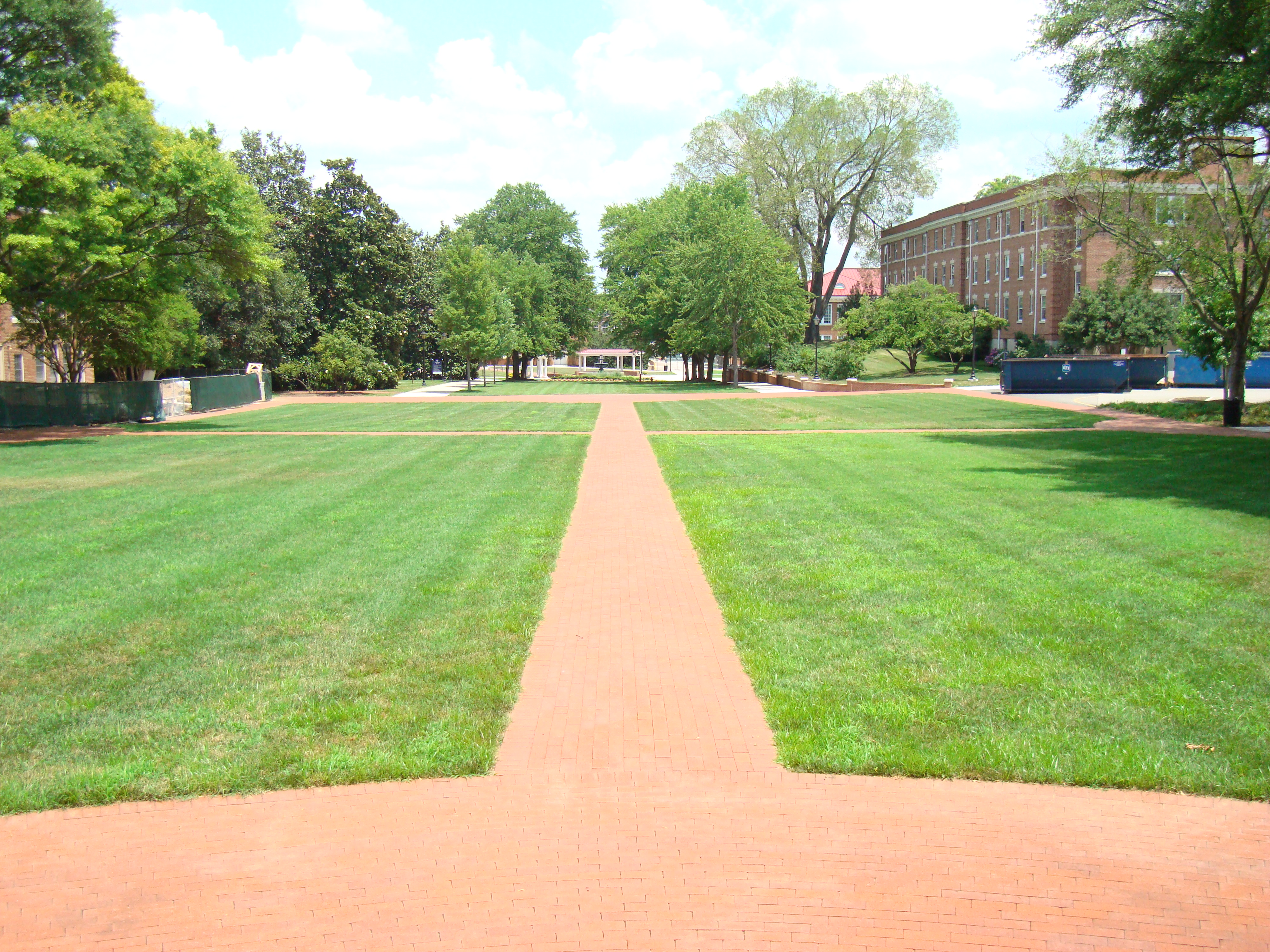 Longwood University from the entrance to Wheeler Residence Hall